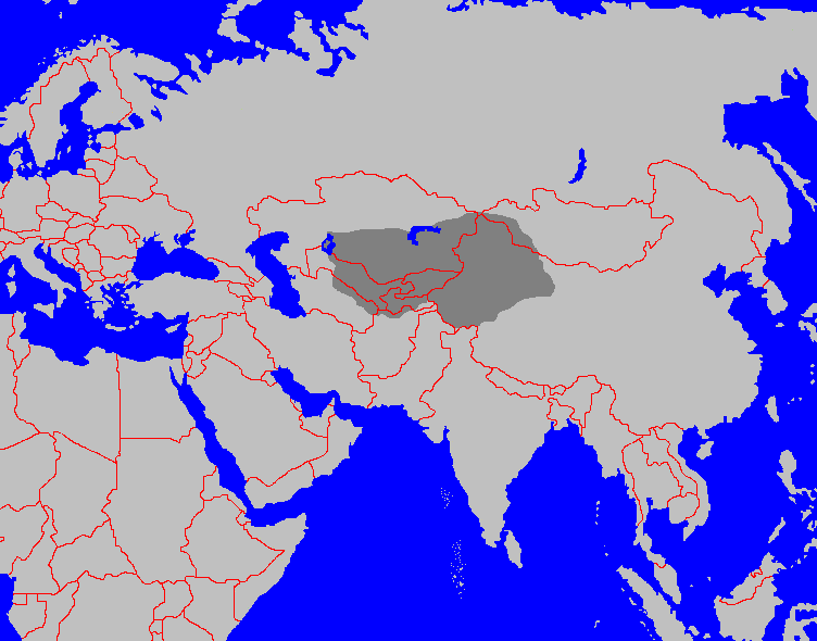 Map of the Kara-Khanide khanates copied from Karachaniden to Qarakhanides